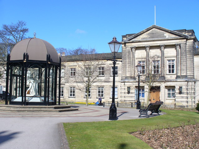 Harrogate Town Hall Classical Victorian building in central Harrogate. The renovated statue is behind glass walls, underneath the cupola - formerly at the gateshead Garden Festival.